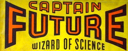 Captain Future logo, taken from the cover of volume 2, issue 1